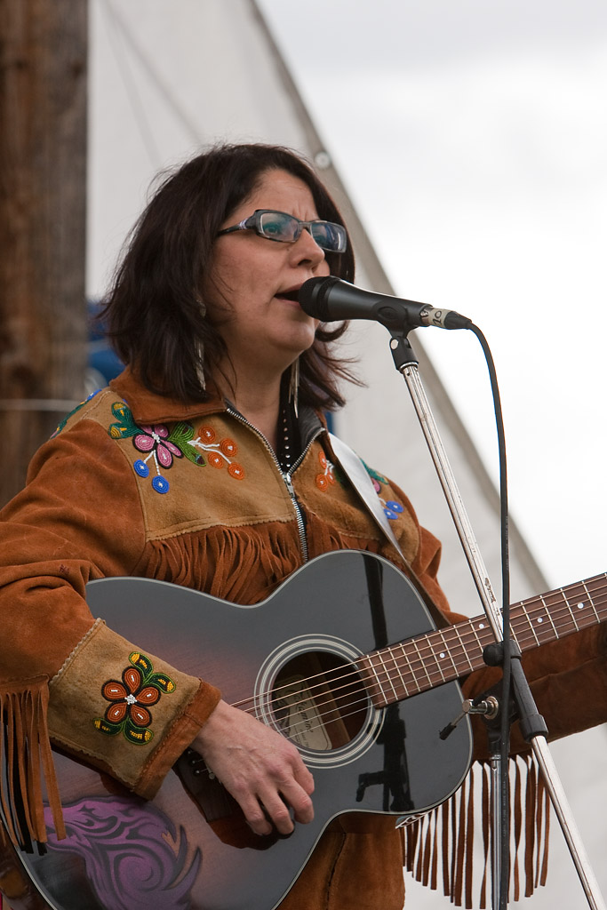 Downtown Eastside Centre for the Arts - Nighthawk Aboriginal Arts and Music Festival